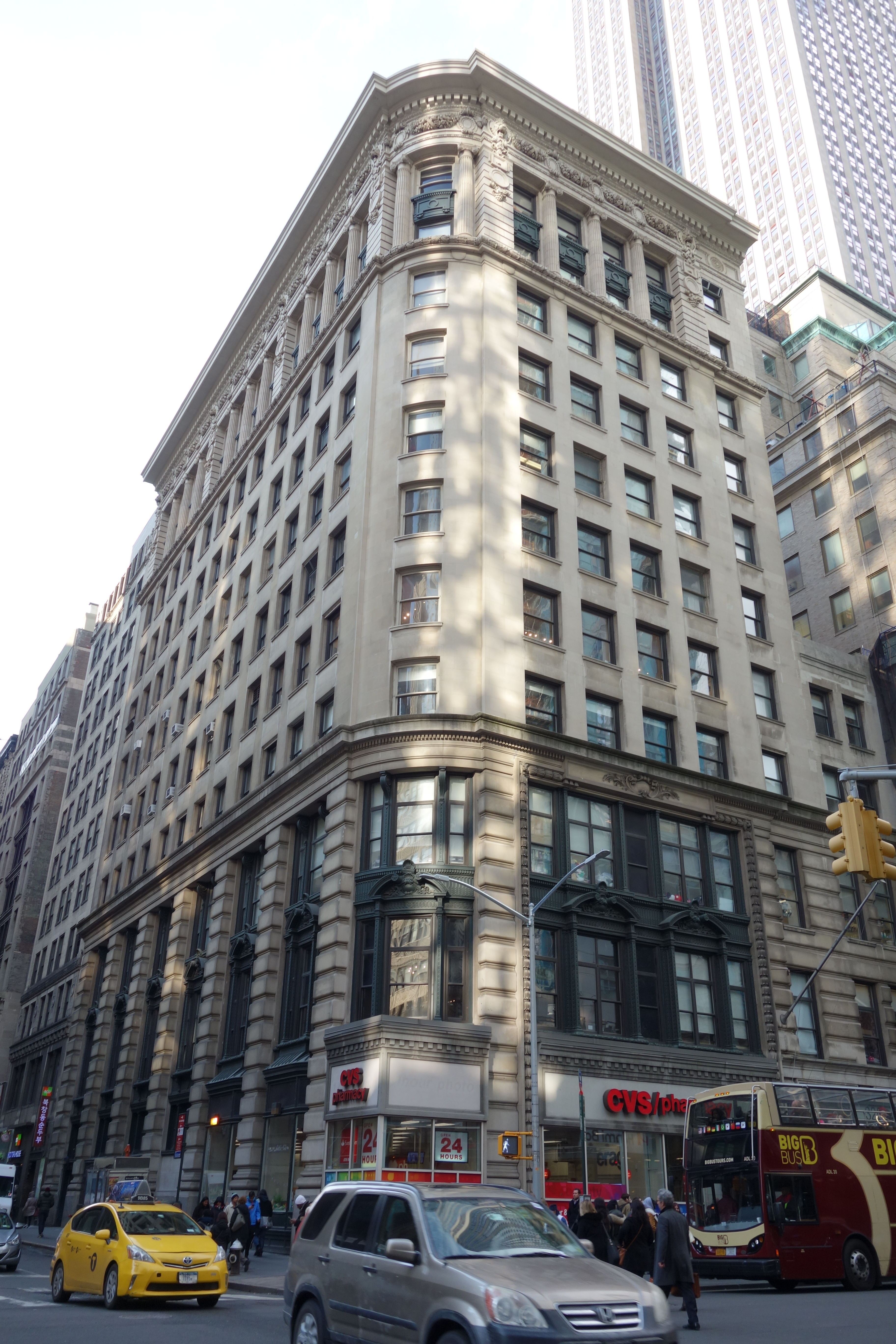 320 Fifth Avenue, at the northwest corner of 5th Avenue and 32nd Street in Midtown Manhattan.